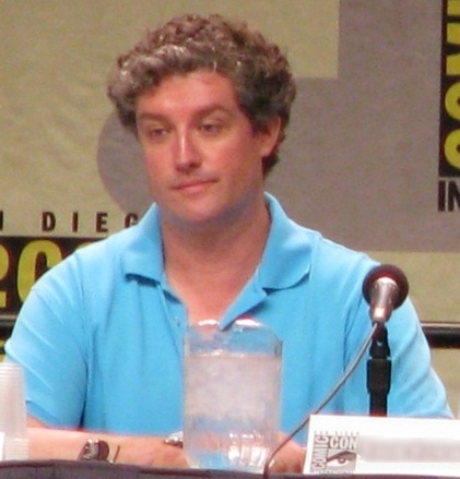 Al Jean